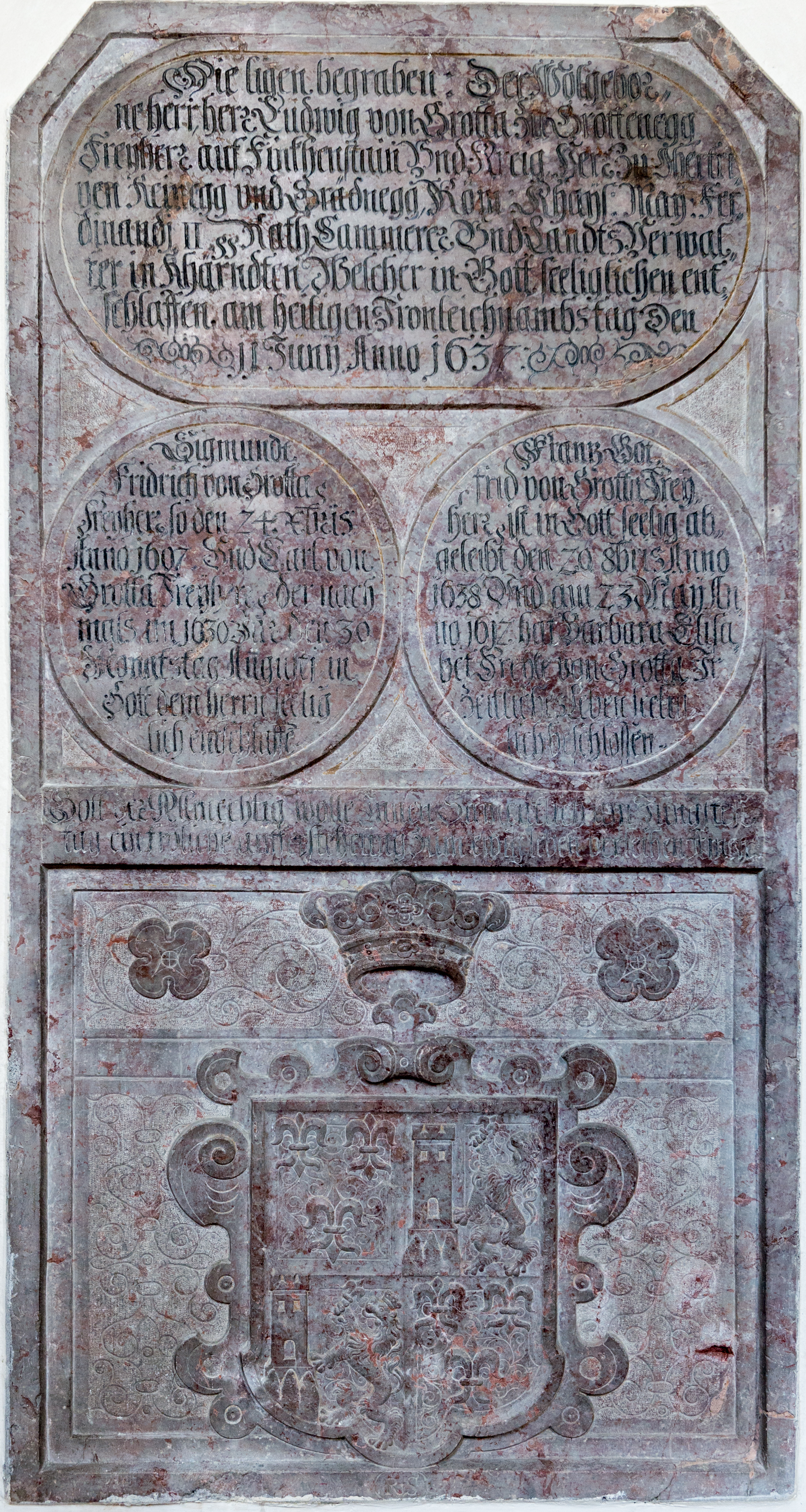 Epitaph with relief of coats of arms for the noble family Grotta von Grottenegg (signed 1637) at the Anna chapel of the parish and pilgrimage church of Maria Gail, statutary city Villach, Carinthia, Austria, EU